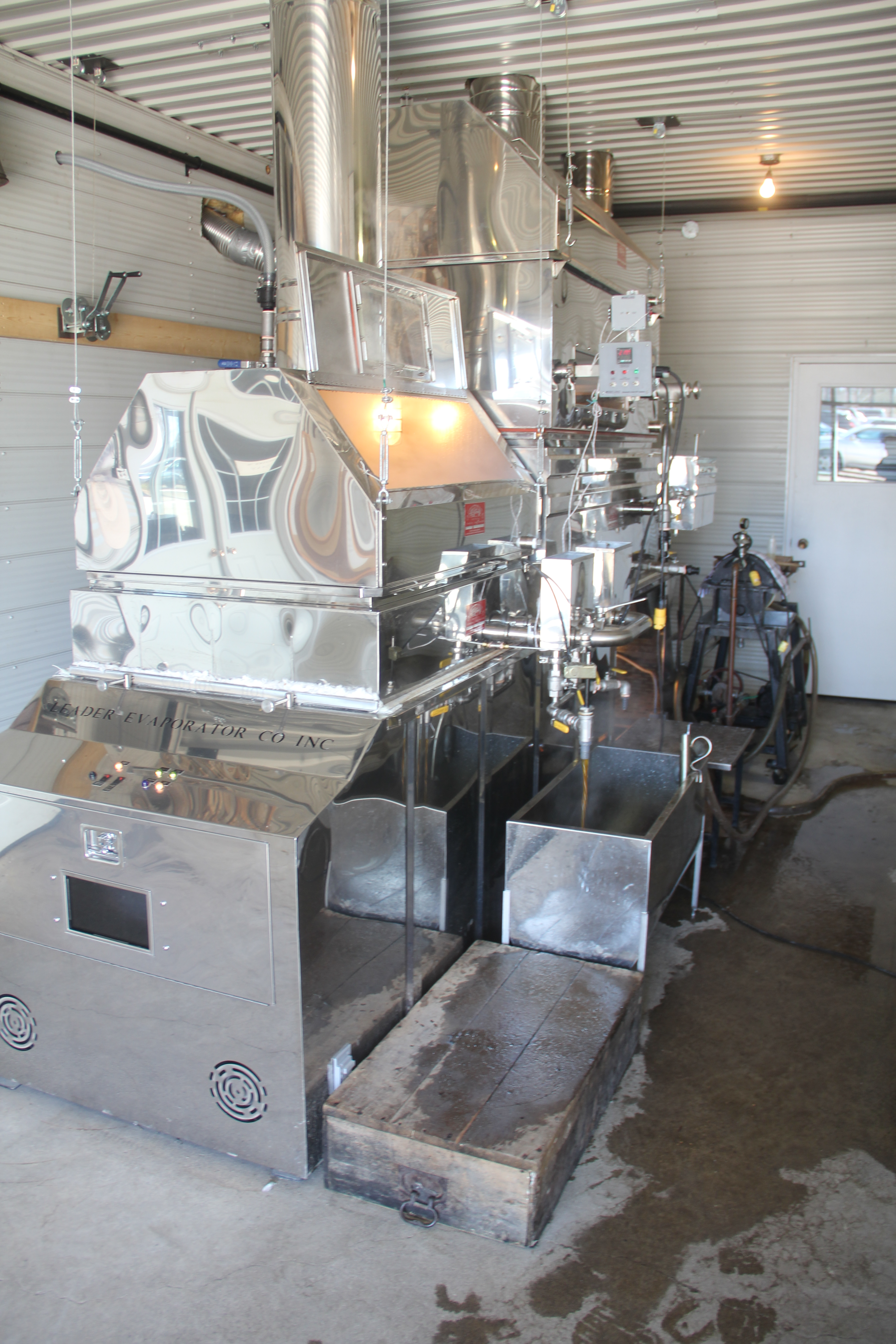 Maple syrup boiler at Shaw Maple Syrup Production, 493 Oro-Medonte Line 14